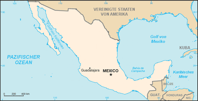 Map of Mexico with Guadalajara